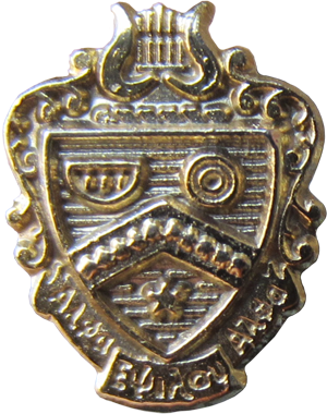 Membership Recognition Pin of Kappa Kappa Psi, National Honorary Band Fraternity